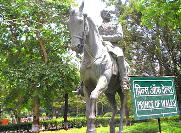 Statue housed at Rani bagh